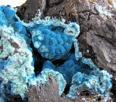 Shattuckite Locality: Mesopotamia 504, Copper Valley, Khorixas, Damaraland District, Kunene Region, Namibia (Locality at ) Size: 5.1 x 3.4 x 2.5 cm. Shattuckite is a rare copper silicate hydroxide mineral with formula Cu5(SiO3)4(OH)2. It was actually first discovered at Bisbee, but is best-known today in specimens from Africa. Often seen from Kaokoveld, Namibia, this one is from a very unusual locality, Mesopotamia (also in Namibia). It features a shallow pocket with deep blue-green balls of shattuckite.